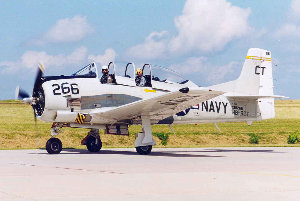 T-28 Trojan 2009 Airshow Nampa, Idaho Airport "Jim's First Flight in his new plane"